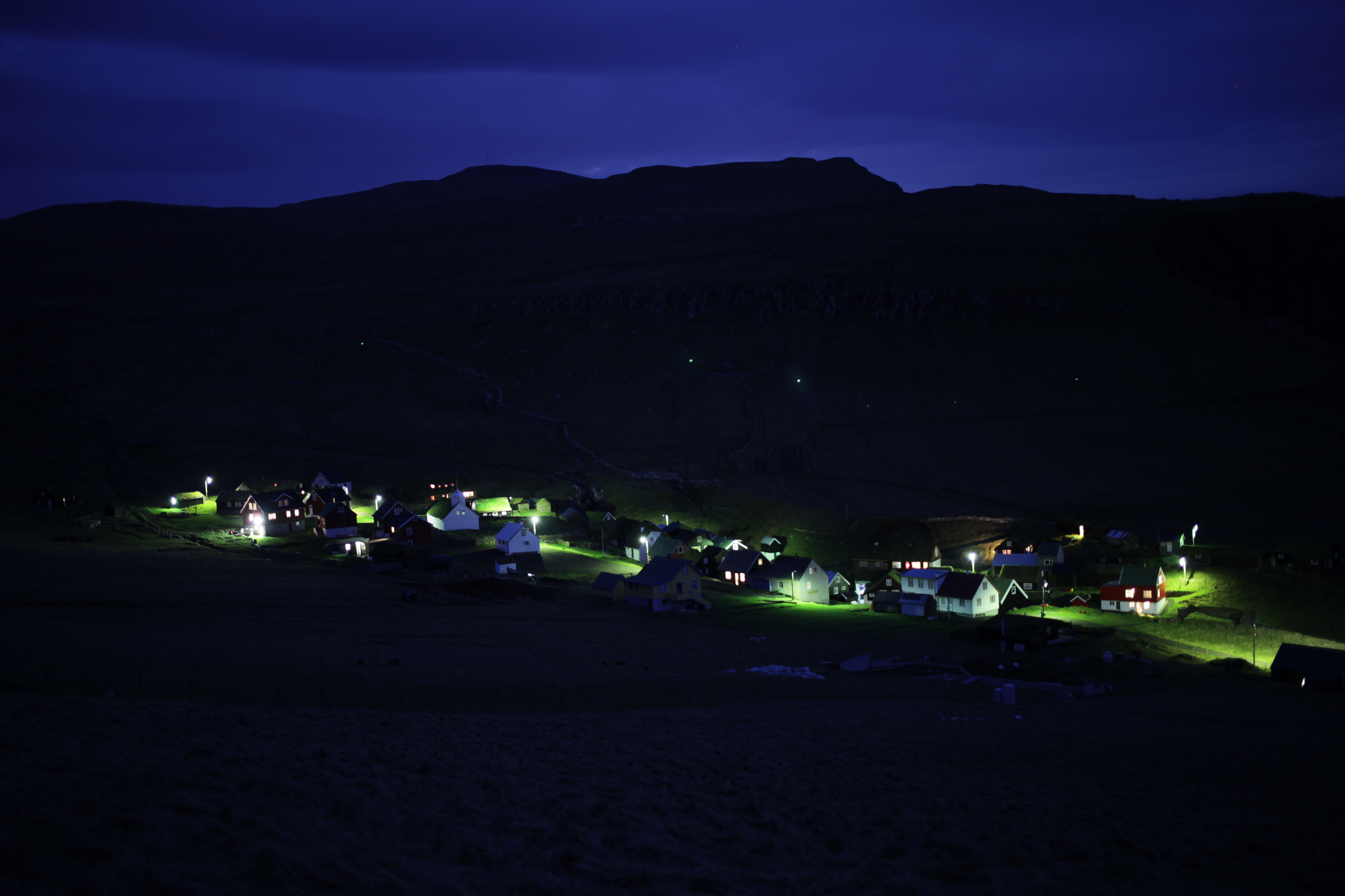 Mykines, Mykines